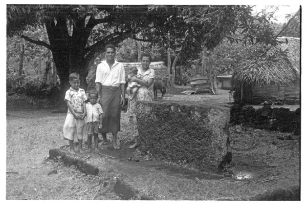 Hanga-ki-'Uvea stone at Fata'ūlua in Niuafo'ou (Tonga) in 1967. The name means "facing Uvea [Wallis island]" in Niuafo'ou and wallisian. The people are Siaki Tali and his family.